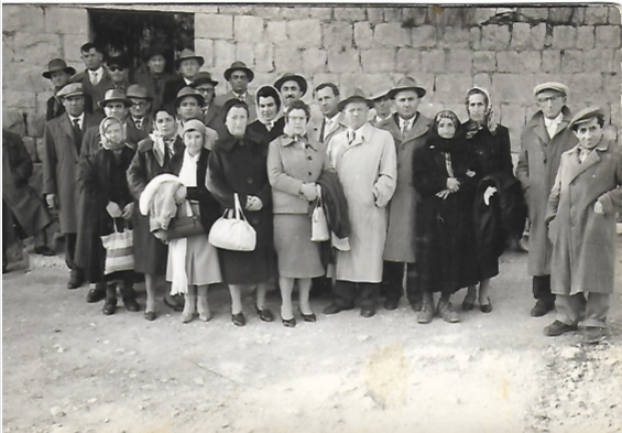 Jewish refugees from Uhnow (Hivniv), Ukraine, at a memorial ceremony held for their townsfolk who perished in the Holocaust.